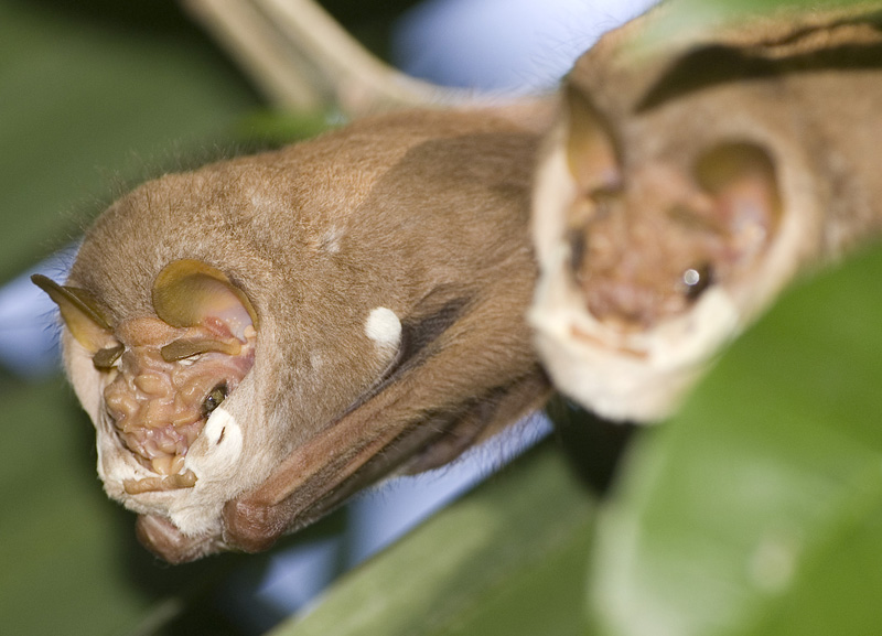 Wrinkled-faced bat, Centurio senex